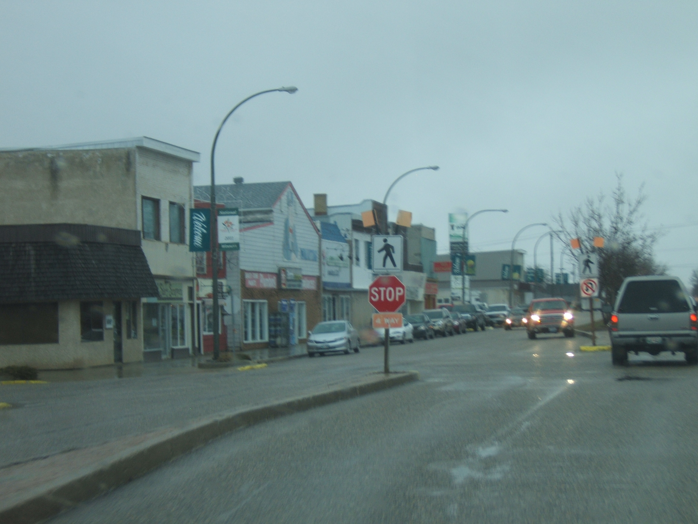 Downtown Killarney, Manitoba, Canada. Taken May 7th, 2014.